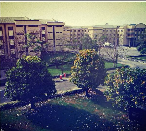 Male Halls of Residence at Covenant University